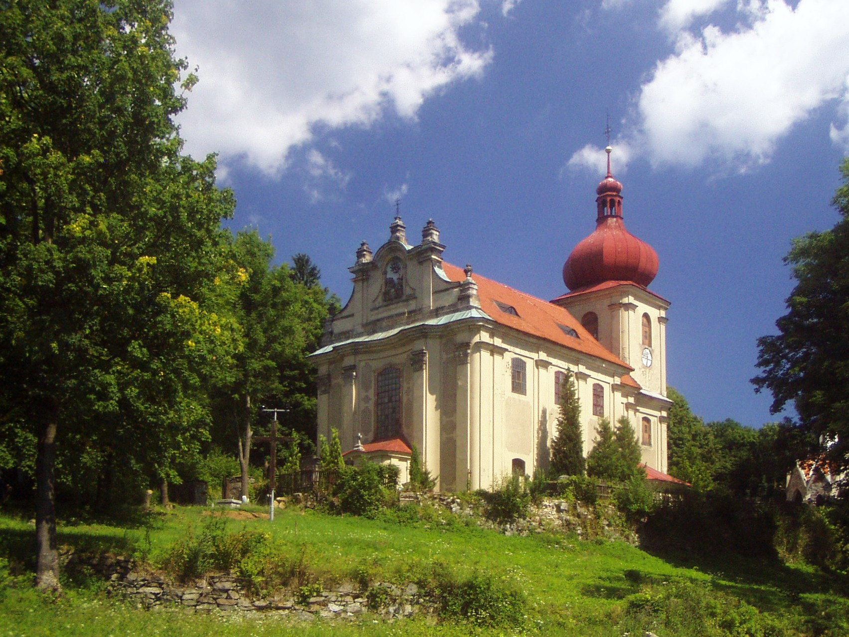 Polevsko - church of the Trinity